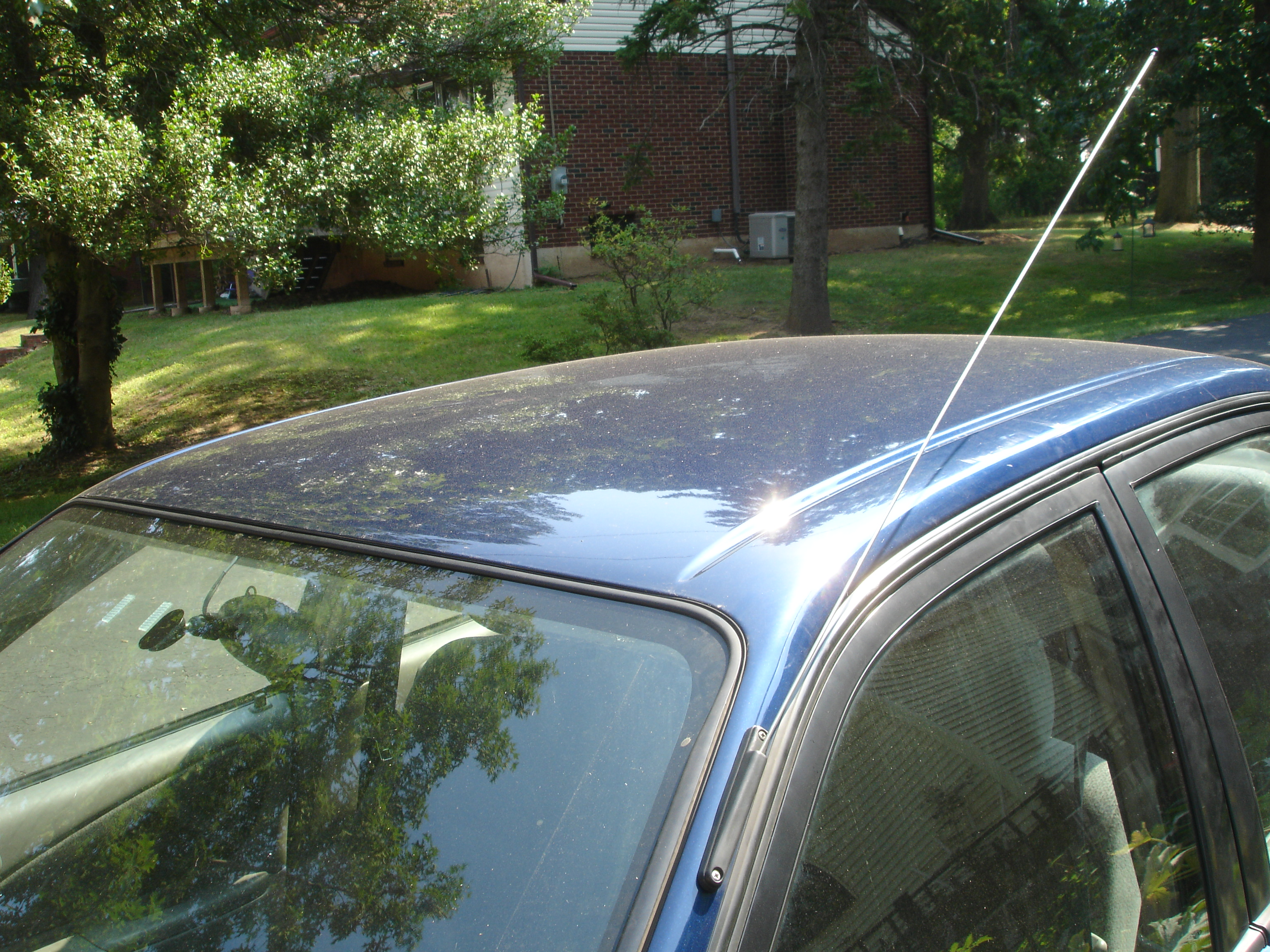 Car radio stock antenna, which has been extended and displayed with the car shown in landscape view orientation for context. The antenna is attached to the car with two Phillips head screws, and it terminates behind the dashboard into the car radio with a Motorola plug.